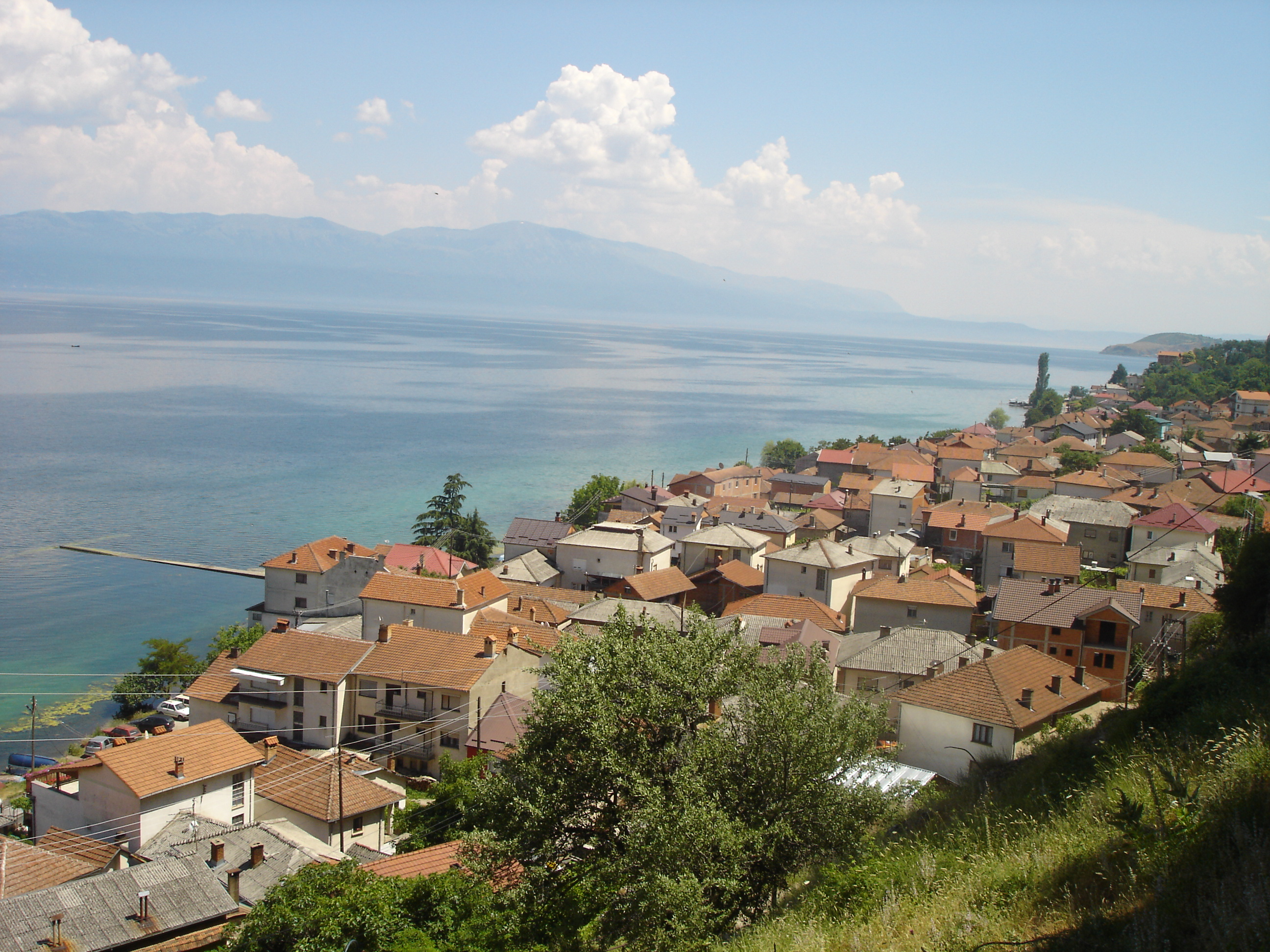 village of Radozhda, Macedonia